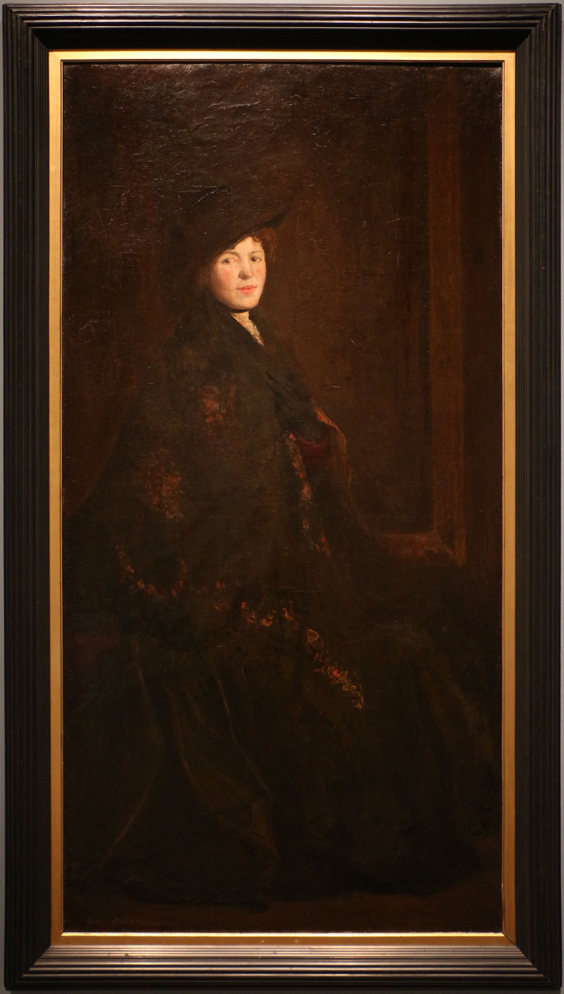 American paintings in the Indianapolis Museum of Art